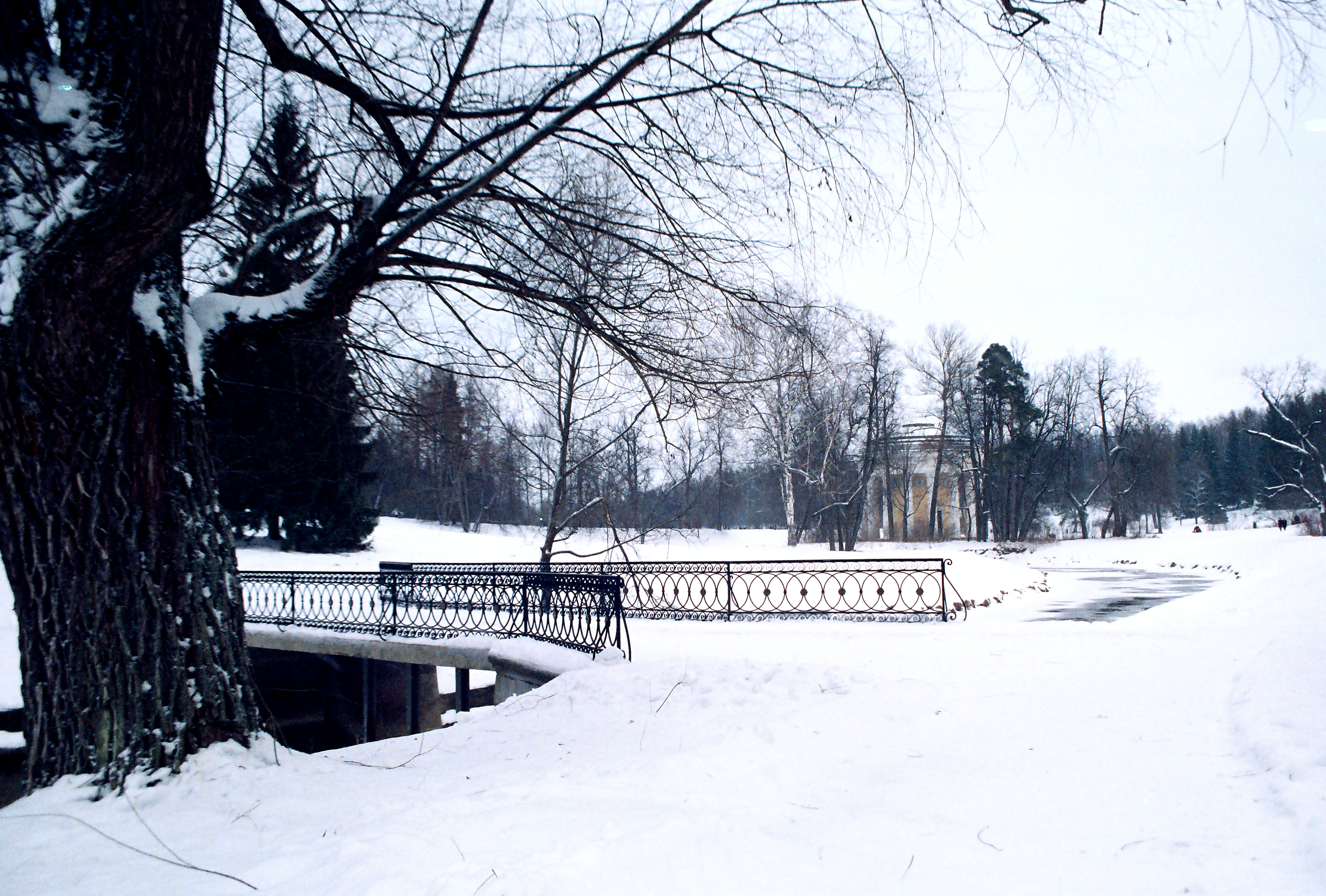 The bridge with a delicate iron-cast railing. Pavlovsk park.